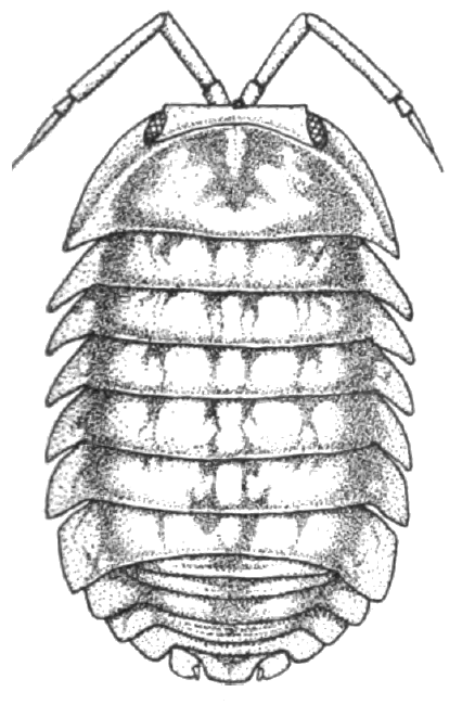 Cubaris insularis Searle, 1922